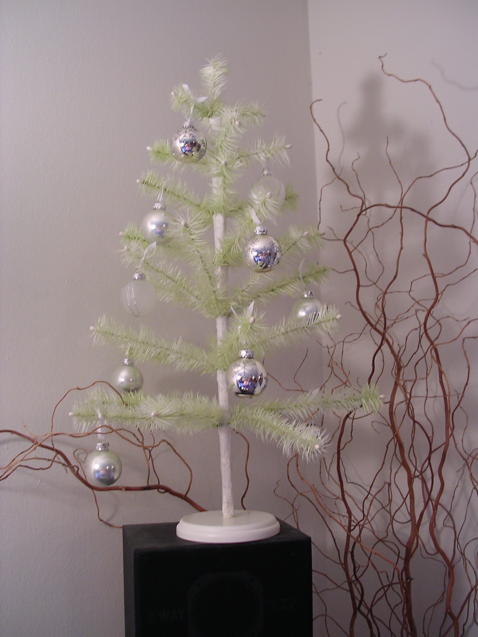 A reproduction of a Victorian feather tree. Originally made of goose feathers, unknown what this one is made from. Branches are painted a light green. Purchased in Ann Arbor, Michigan, USA.